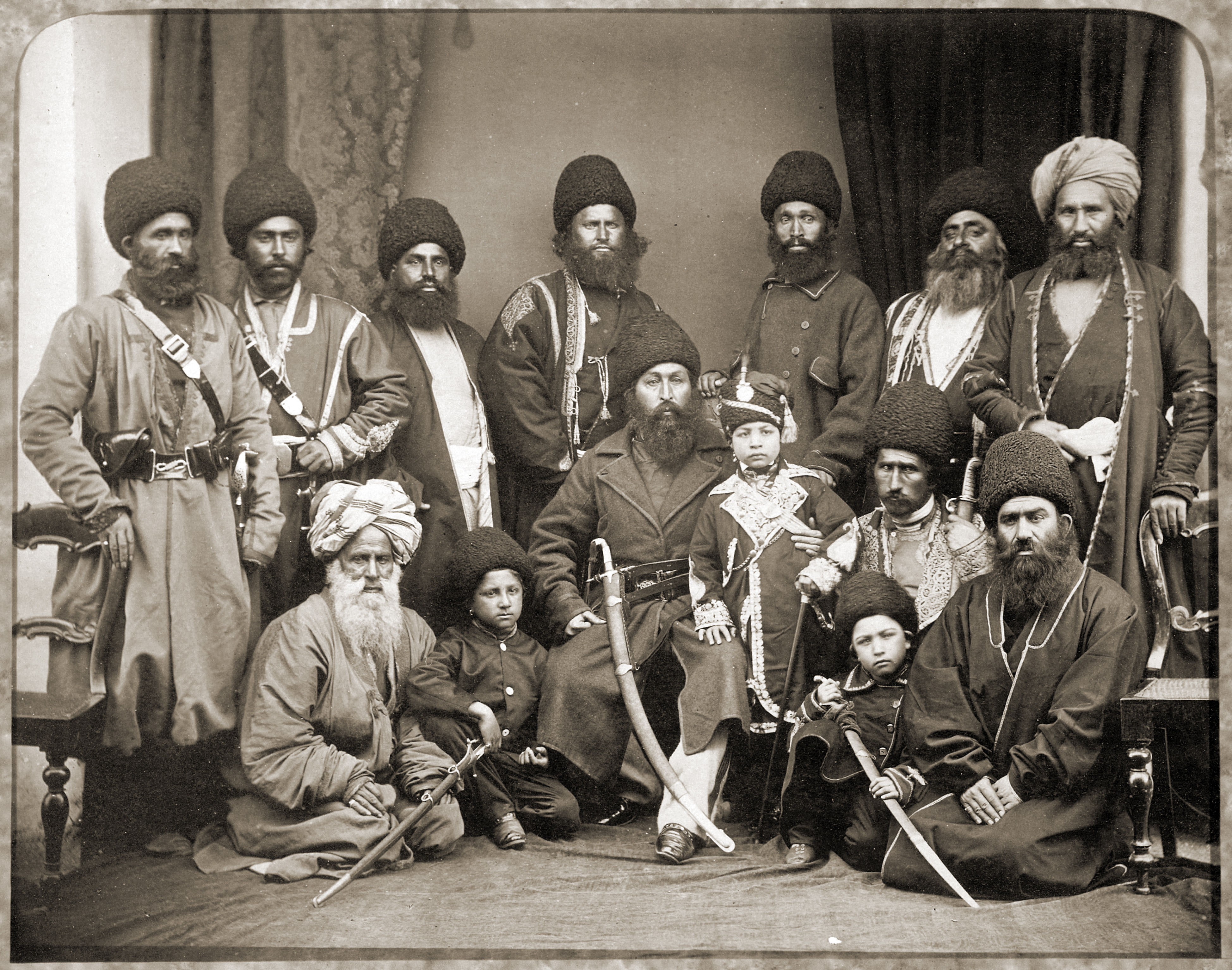 "Group of the Amir Shere Ali, Prince Abdullah Jan, & Sirdars. Photograph taken by John Burke in 1869; a studio portrait of the Amir of Afghanistan, Sher Ali (1825-1879), Prince Abdullah Jan, Khan Nasher (second from left) and Afghan sardars and khans, from a series titled 'Photographs of the Amir Shere Ali Khan and Suite'. John Burke accompanied the Peshawar Valley Field Force, one of three British Anglo-Indian army columns deployed in the Second Afghan War (1878-80), despite being rejected for the role of official photographer. He financed his trip by advance sales of his photographs 'illustrating the advance from Attock to Jellalabad'. Coming to India as apothecary with the Royal Engineers, Burke turned professional photographer, assisting William Baker. Travelling widely in India, they were the main rivals to the better-known Bourne and Shepherd. Burke's two-year Afghan expedition produced an important visual document of the region where strategies of the Great Game were played out. This image is part of a special series on Sher Ali at the Ambala Durbar of 1869. The First Afghan War resulted in a defeat for the British in 1842. Ever since, there was a deep desire in the British to lay their writ over Afghanistan. The country tried to stay independent, turbulent due to chaotic struggles for power between relatives. In 1869, a new Amir, Sher Ali, took power. That same year, in an attempt to appease the British he travelled to Ambala near Lahore for a durbar with the Viceroy Lord Mayo. This photograph appears to have been taken at this time. The little boy with Sher Ali was his son and chosen heir. The negotiations at the durbar were ineffective, the Amir resisting the British demand to have an embassy at Kabul which the Afghans would view as an invasion, yet seeking British aid to establish his legitimacy. This was not forthcoming, although they offered him money."